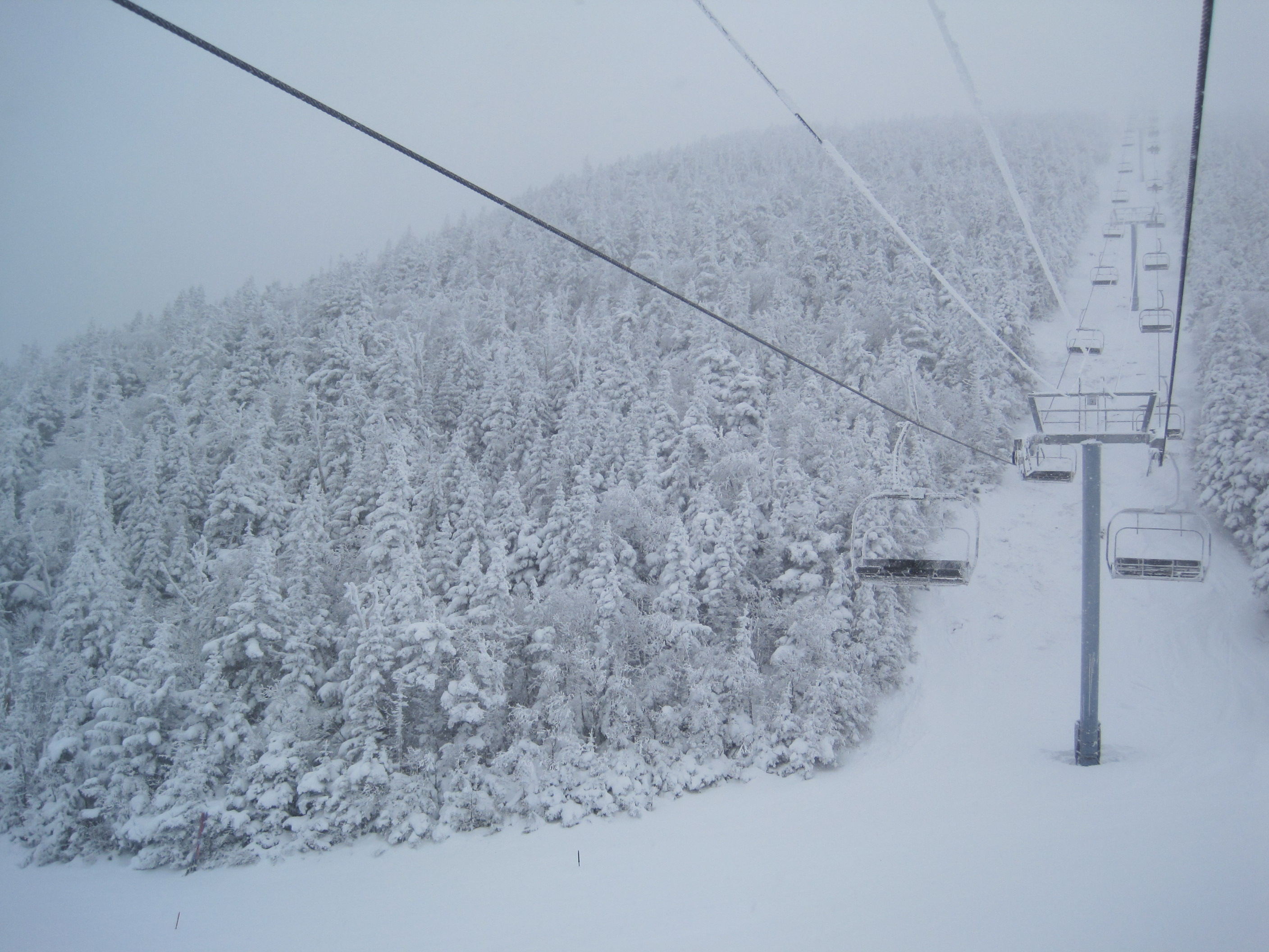 Ascending the Summit Quad at Mt. Ellen, Sugarbush, Dec 23, 2010. There had been an 8-inch snowfall the previous night.